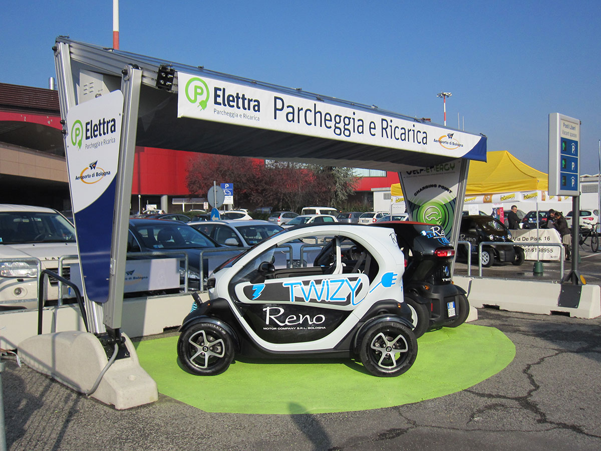 Giulio Barbieri S.p.A. charging station - Aeroporto di Bologna-Borgo Panigale.